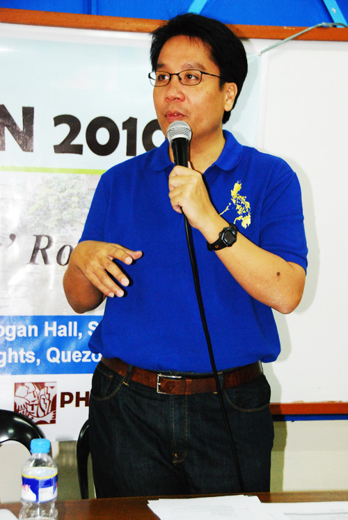 Talakayan 2010 August 9, 2009 ISO, Ateneo de Manila University Panauhin: Sen. Mar Roxas Photo by Ofelia T. Sta. Maria. Licensed under Creative Commons.